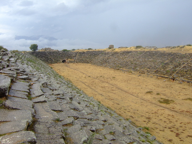 Stadium in Aphrodisias, in modern-day Turkey.